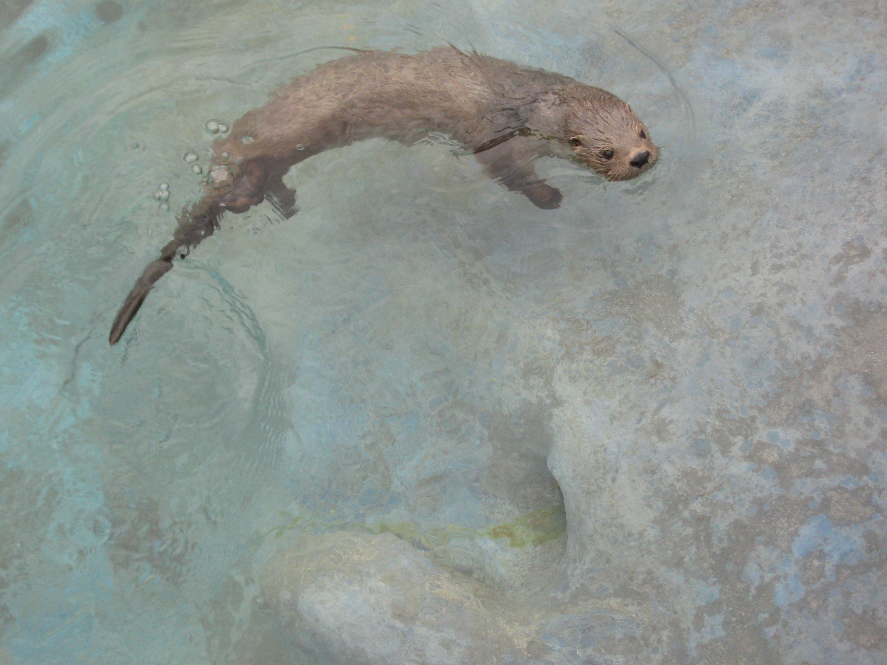 Marine otter (Lontra felina) at Huachipa Zoo in Lima, Peru.